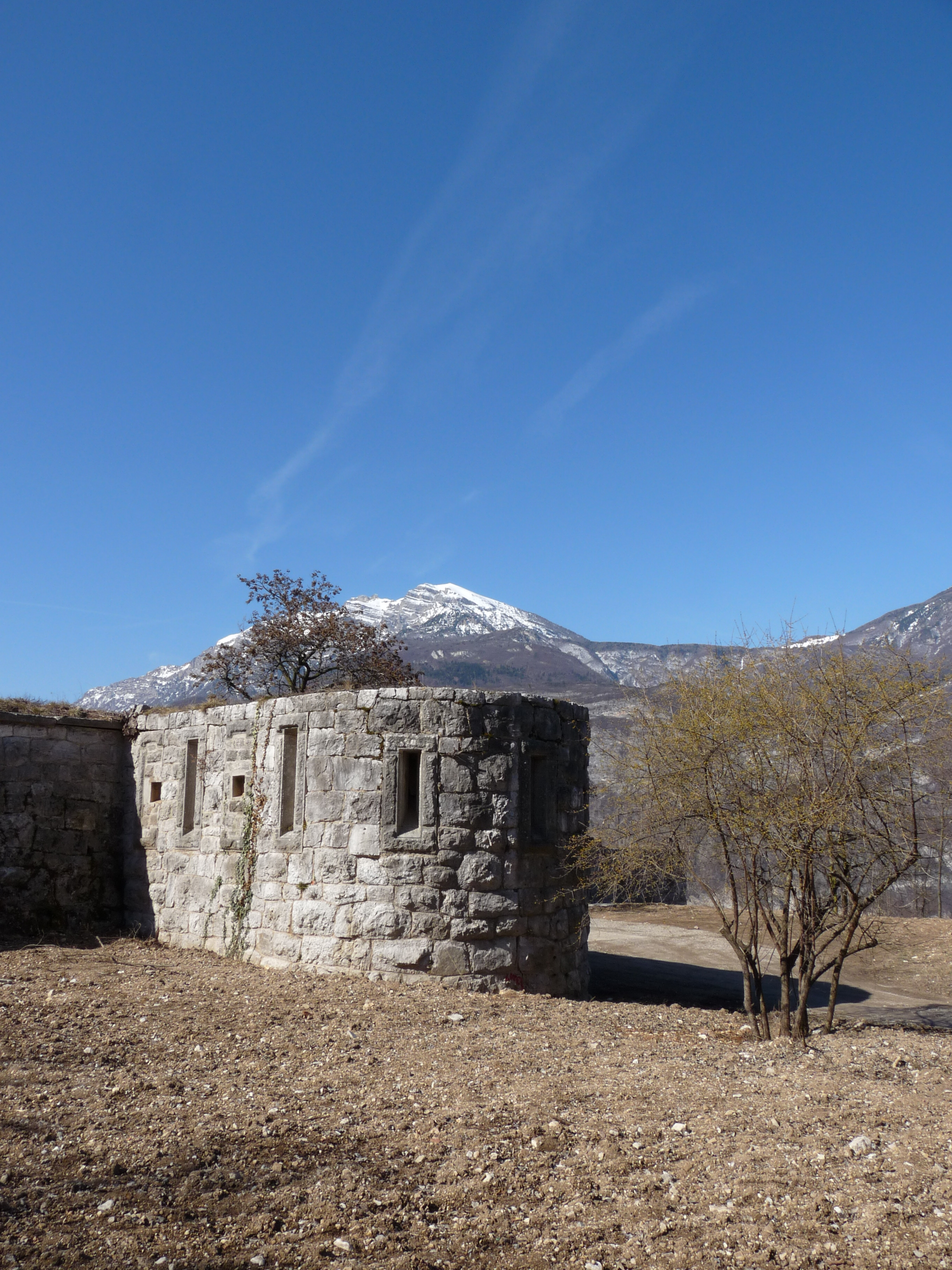 Trento (Italy): the Obere Batterie Mattarello, in the village of Mattarello